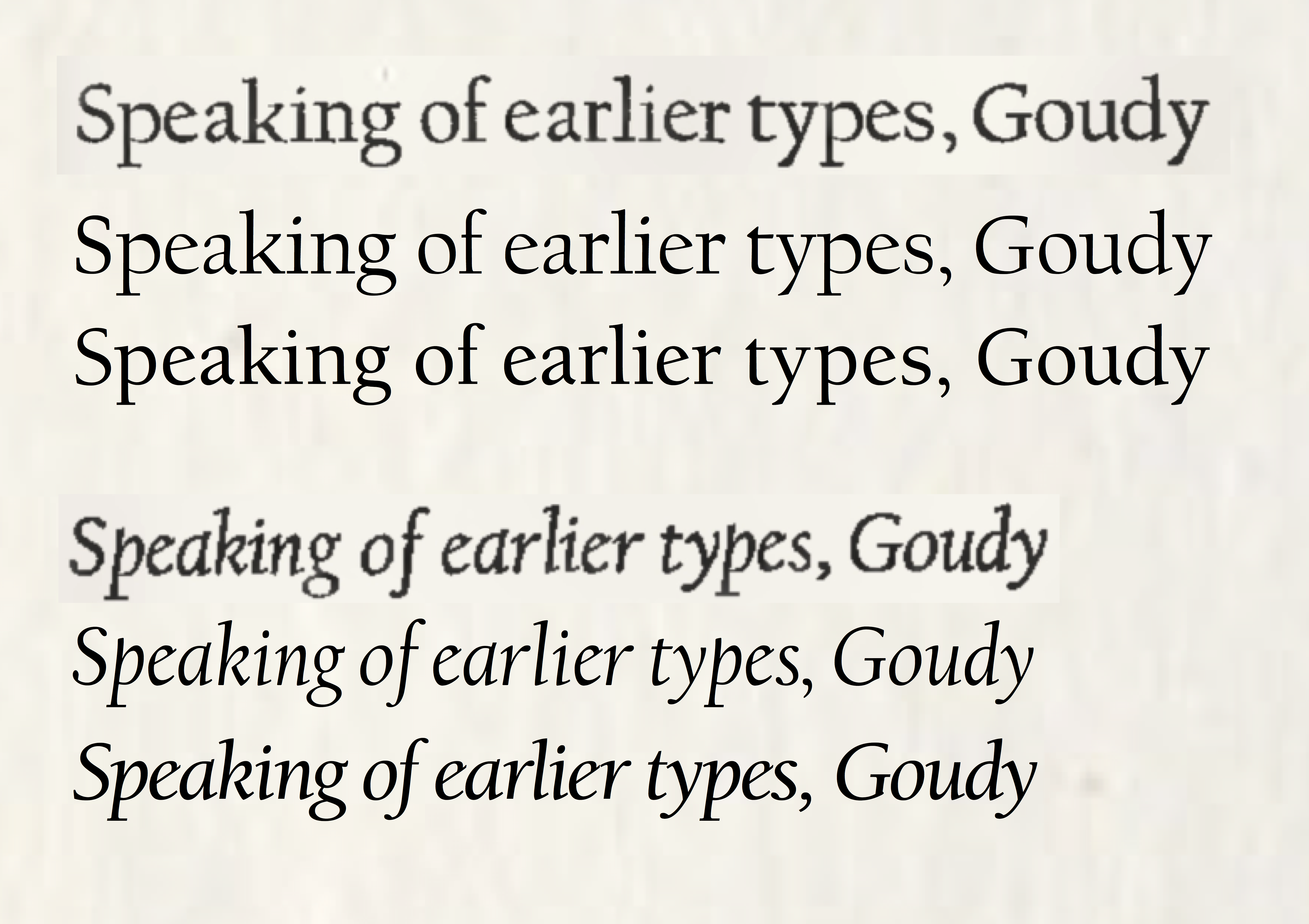 Frederic Goudy's University of California Old Style typeface in regular and italic styles, compared to two digitisations: Californian FB and Berkeley Old Style Medium. The sample images are from Goudy's memoir, "A Half-Century of Type Design and Typography", which is in the public domain (copyright not renewed). Spacing is manually adjusted to match the metal type. The quote is part of a short text presenting Goudy's famous quote "The old fellows stole all of our best ideas," humorously exemplifying his belief in the continued primacy of old-style serif designs.